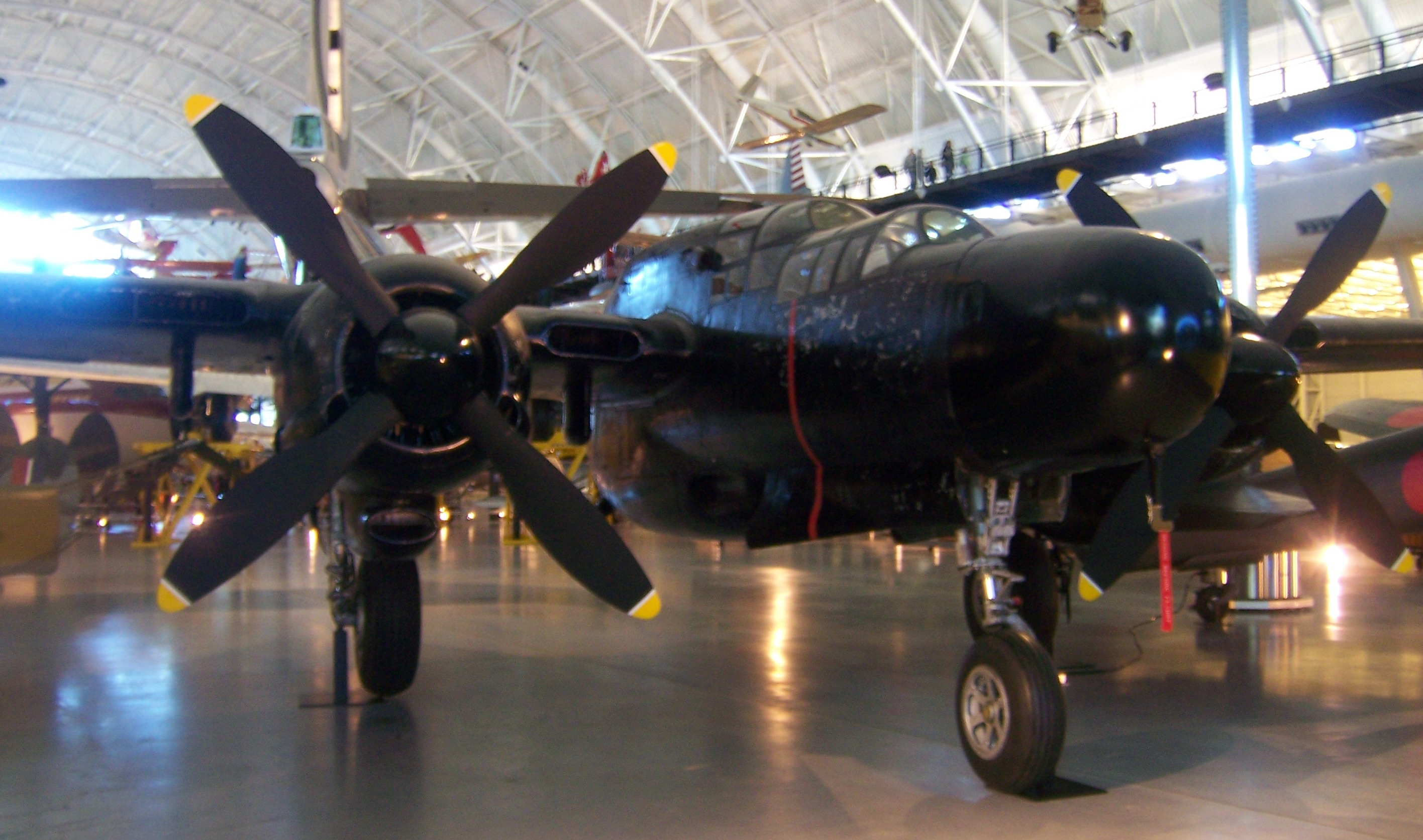 Northrop P-61C - Black Widow in Steven F. Udvar-Hazy Center